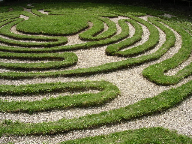 The Mizmaze on Breamore Down, Hampshire. This turf maze is part of the Breamore House estate, in a copse about a mile northwest of the house. Like other mizmazes in the country it is probably medieval. The pattern is the same as that in the nave of Chartres cathedral, France.